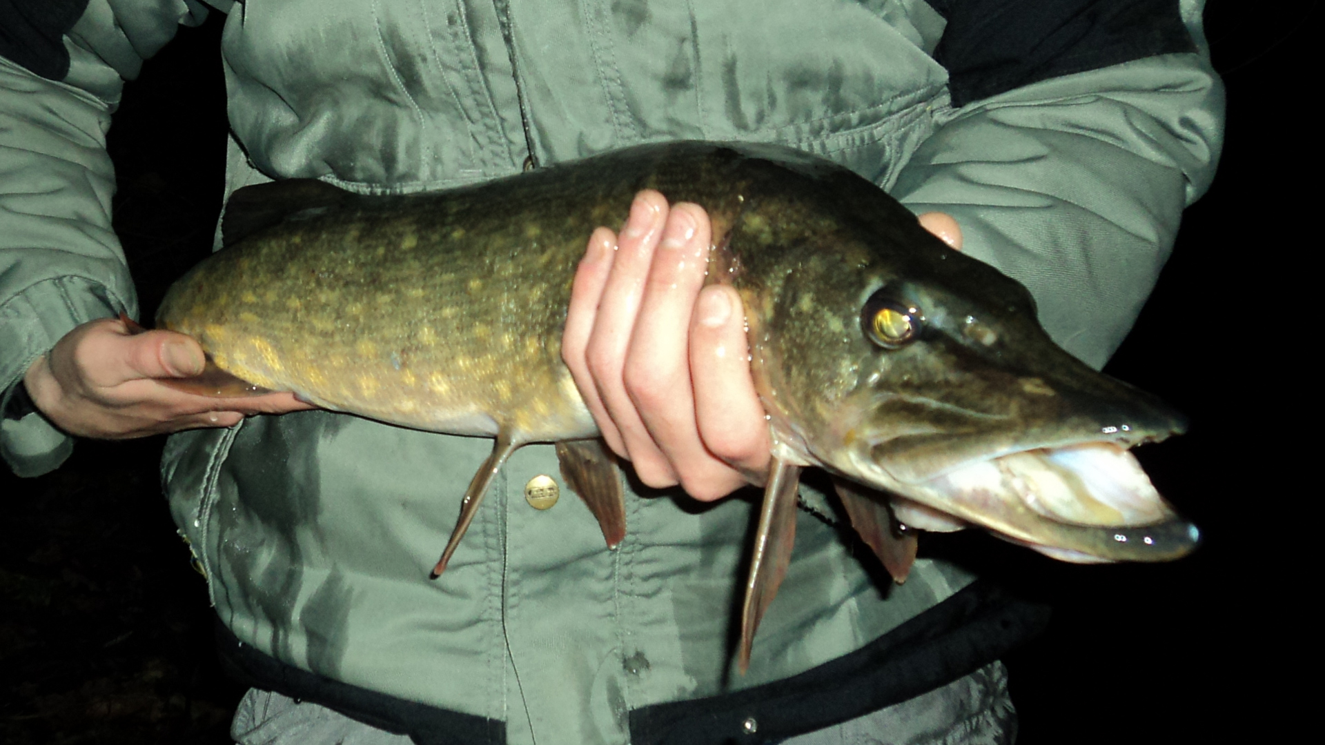 Esox lucius (Northern Pike) caught in Belgium